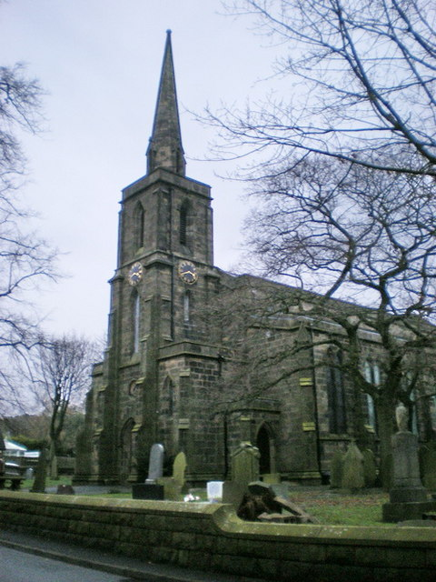 The Parish Church of St Mary the Virgin, Mellor